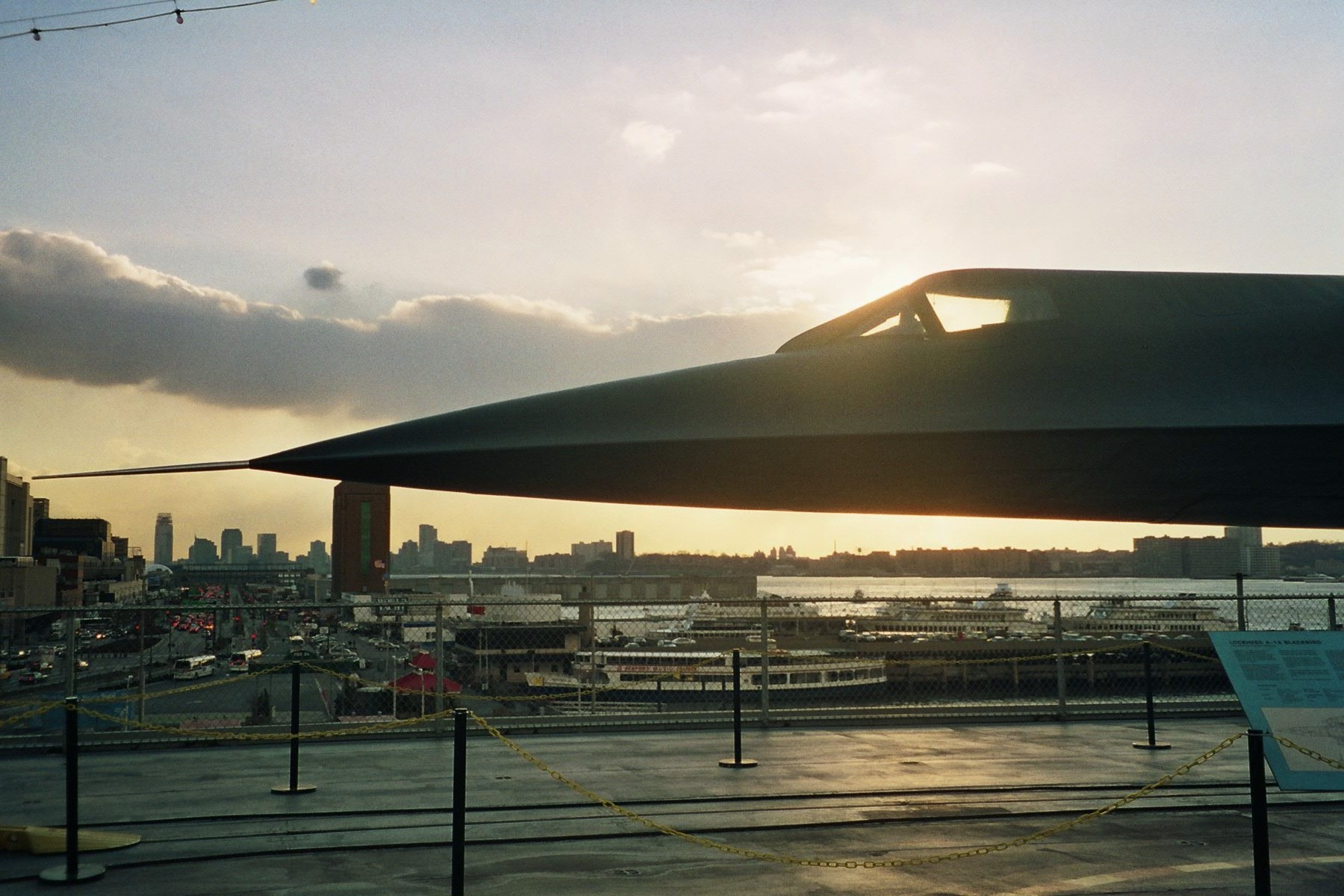 exhibits on the USS Intrepid aircraft carrier, in the harbour of New York Copyright © 2003 David Monniaux